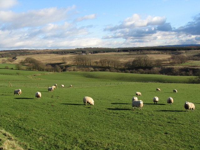 Sheep grazing